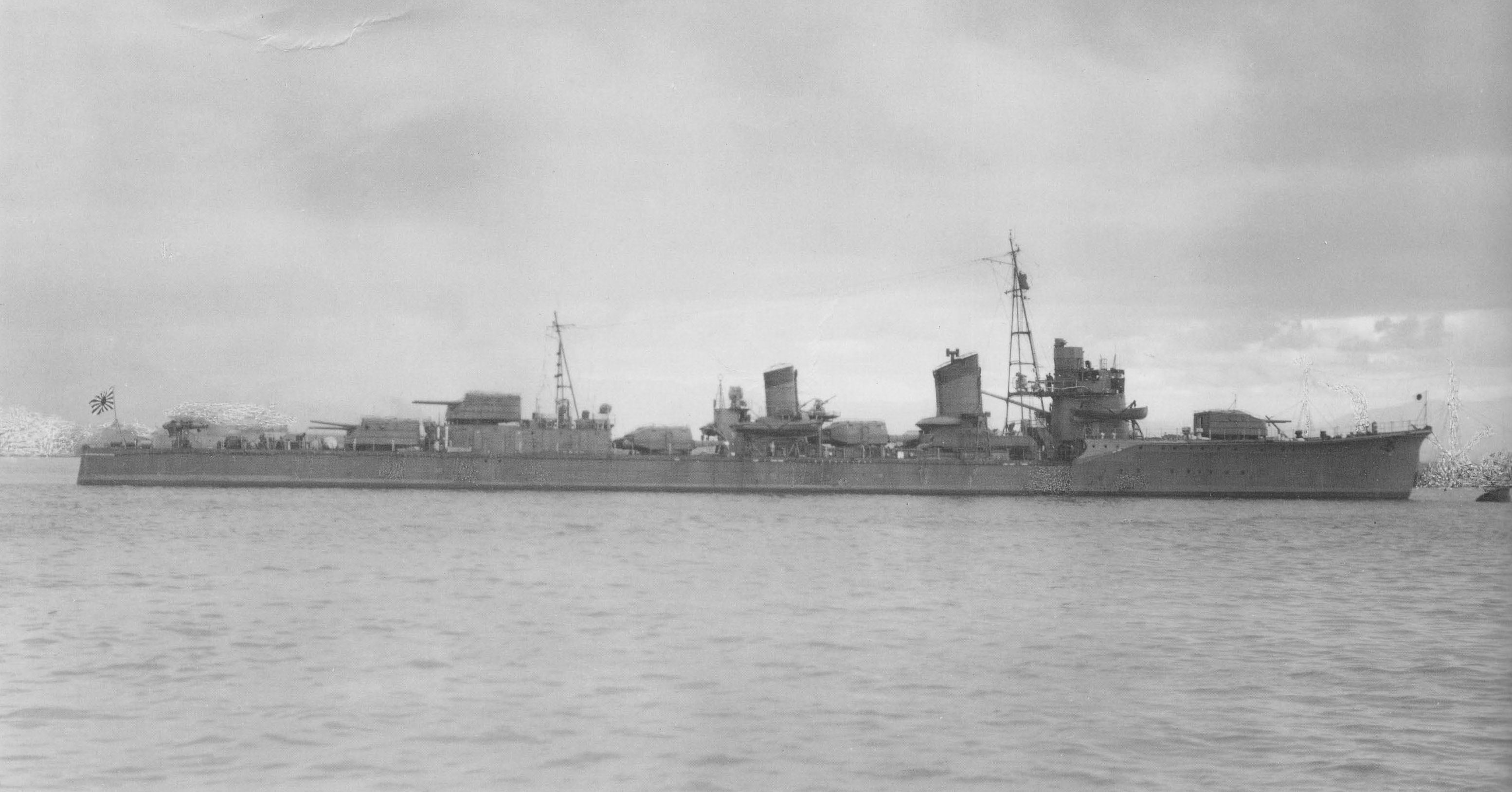 Imperial Japanese Navy destroyer Makigumo, the second Japanese warship to bear that name.